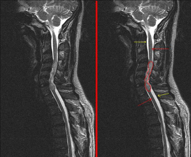 MRI-image of the sagital neck with an ependymoom. On the left side the original image, on the right side the same image with annotations.